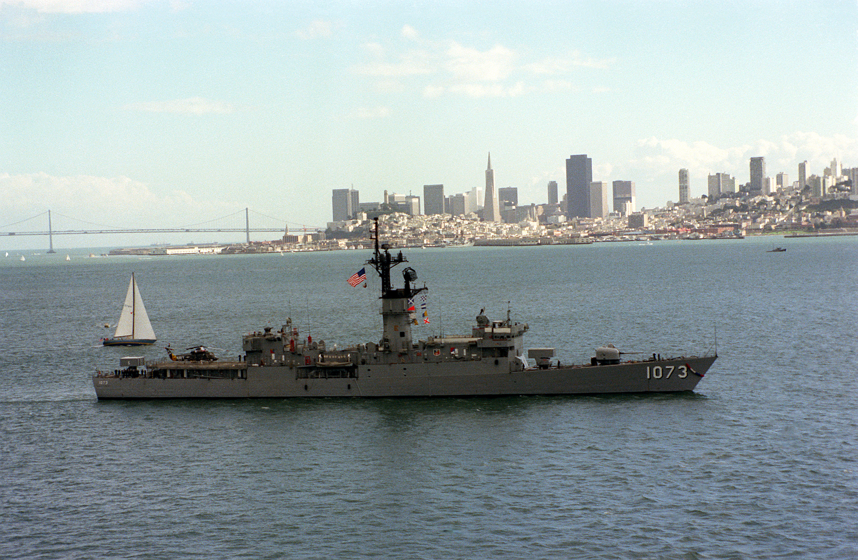 A starboard beam view of the frigate USS ROBERT E. PEARY (FF-1073) underway during Fleet Week activities. Visible in the background are the San Francisco-Oakland Bay Bridge, and the San Francisco skyline.Location: SAN FRANCISCO, CALIFORNIA (CA) UNITED STATES OF AMERICA (USA)